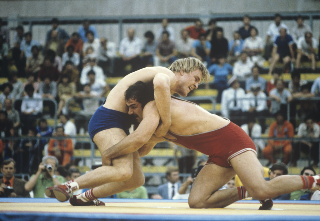 “Wrestlers Ilya Mate and Julius Strnisko”. Olympic champion, wrestler Ilya Mate (100 kg) and bronze medalist Julius Strnisko (Czechoslovakia), left, at the wrestling event. XXII Olympic Games. July 19-August 3, 1980.